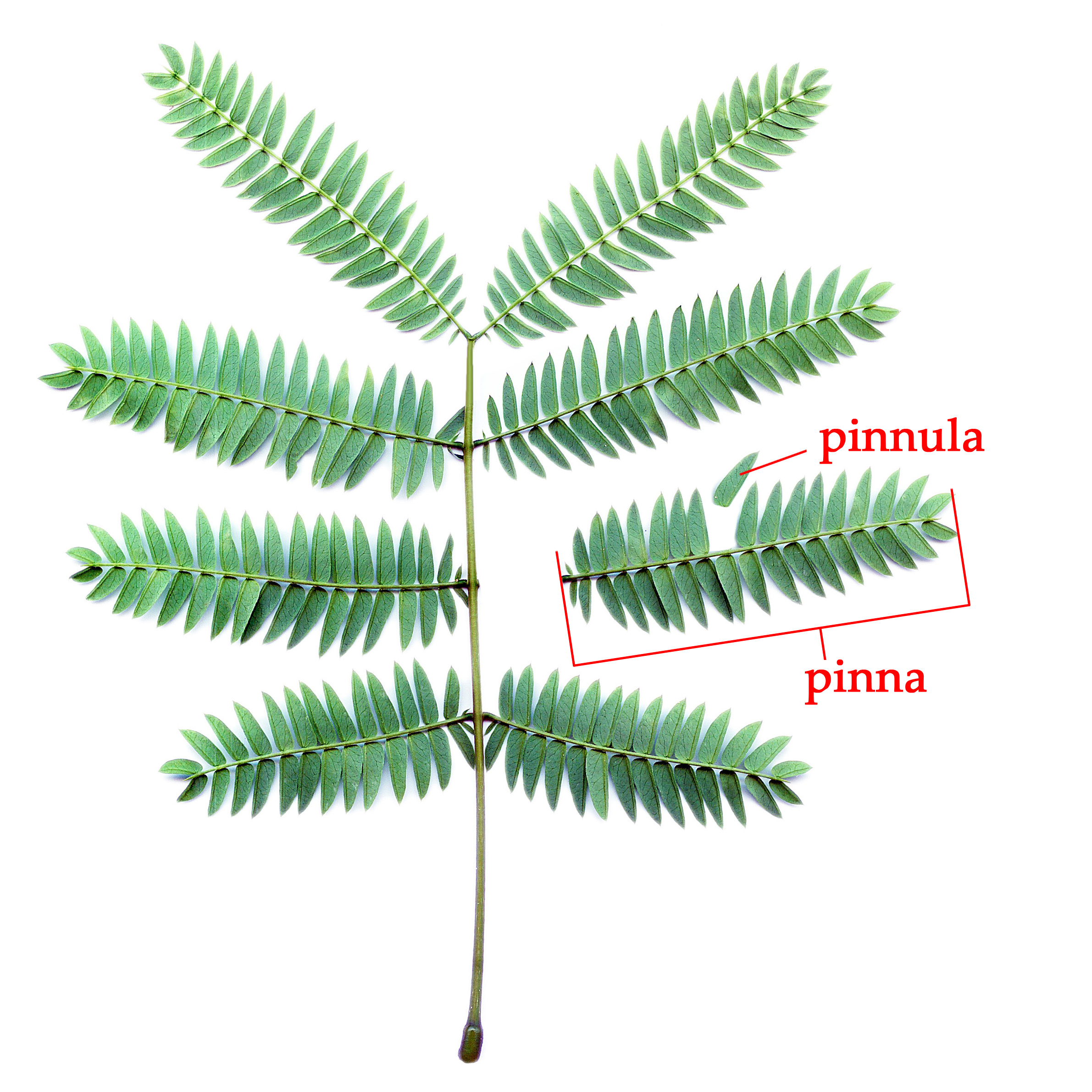 Pinna and pinnule in compound leaf of Albizia julibrissin.